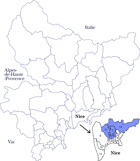 Map of Alpes Maritimes' 3rd constituency, France (2010 redistricting, into force from 2012 French legislative elections).